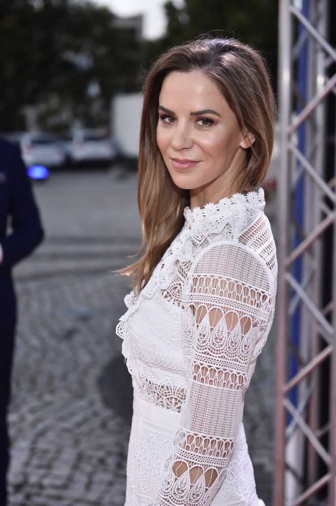 Natalia Lesz, TVP 2019